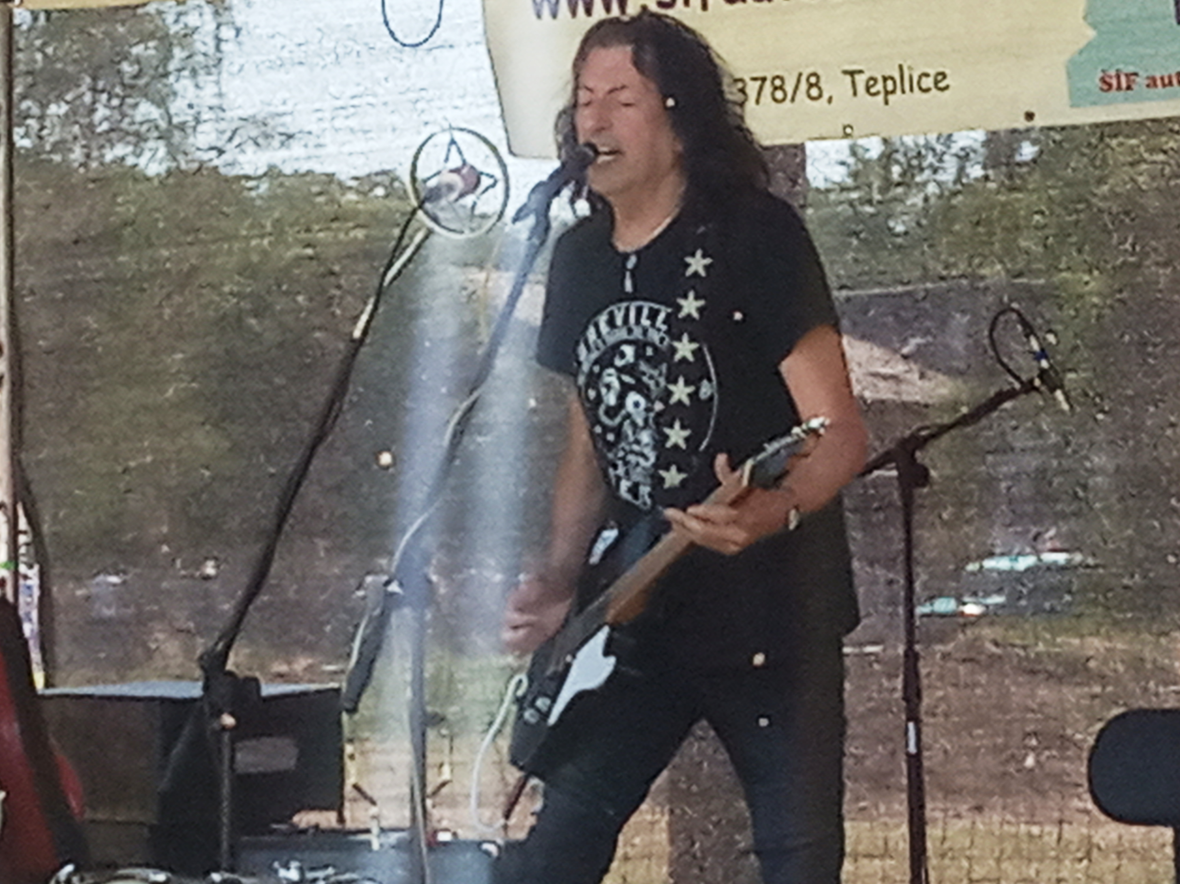 Australian blues quitarist Gwyn Ashton in the Czech willage Rtyně nad Bílinou in 2019